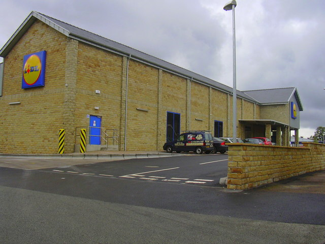 The New Lidl Built on the site of the demolished tram/bus garage it has altered the whole area, please go to for a selection of photos of the garage, it's demolition etc